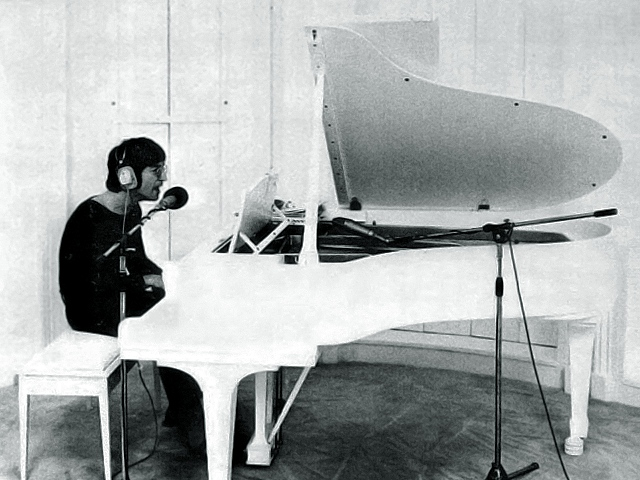 John Lennon, as pictured in an advertisement for Imagine from Billboard, 18 September 1971